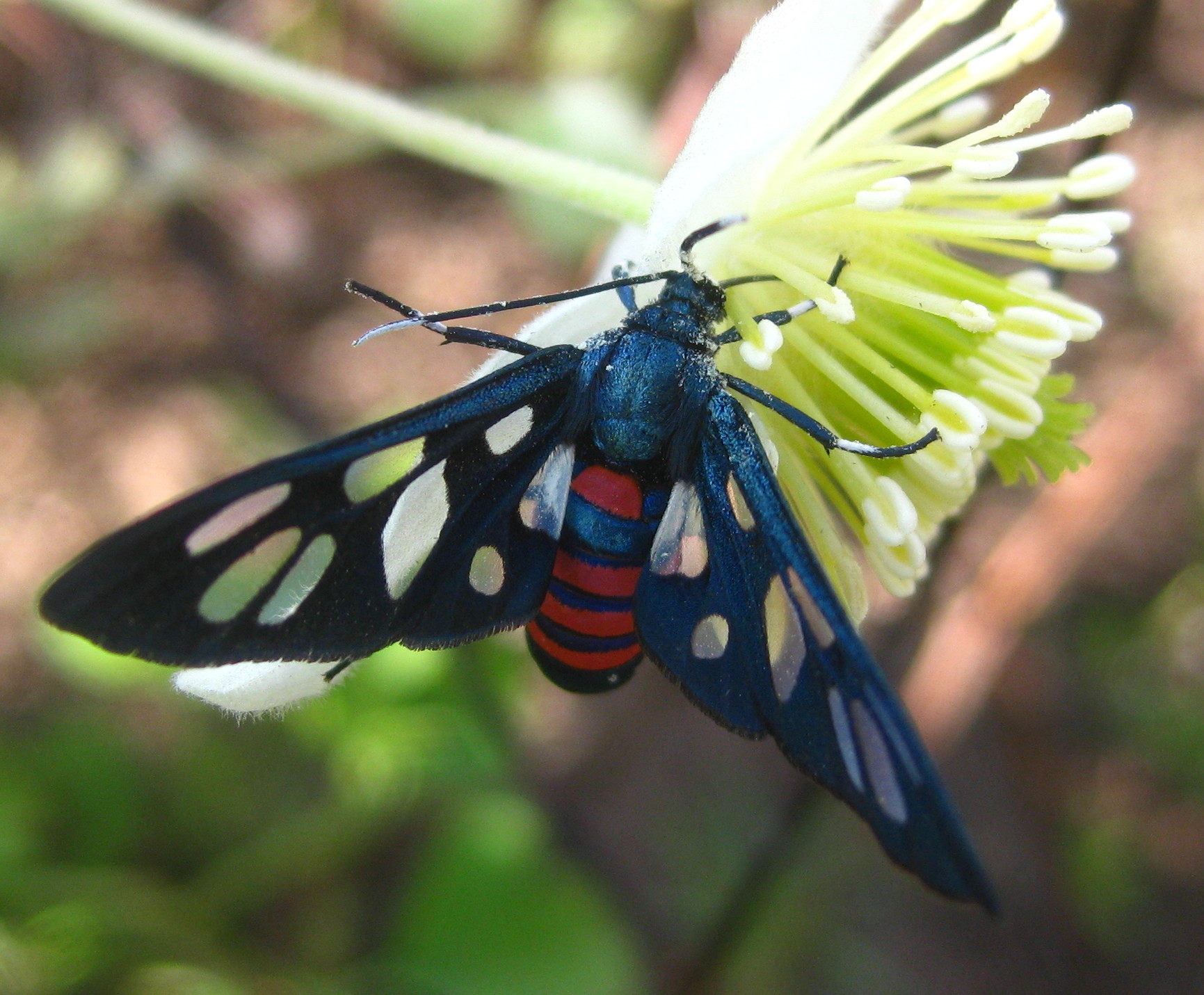 The Heady Maiden (Amata alicia, Family Ctenuchinae, Lepidoptera) is a day-flying moth. Here on a flower of Clematis brachiata close to Muruwere in Manica province of Mozambique.